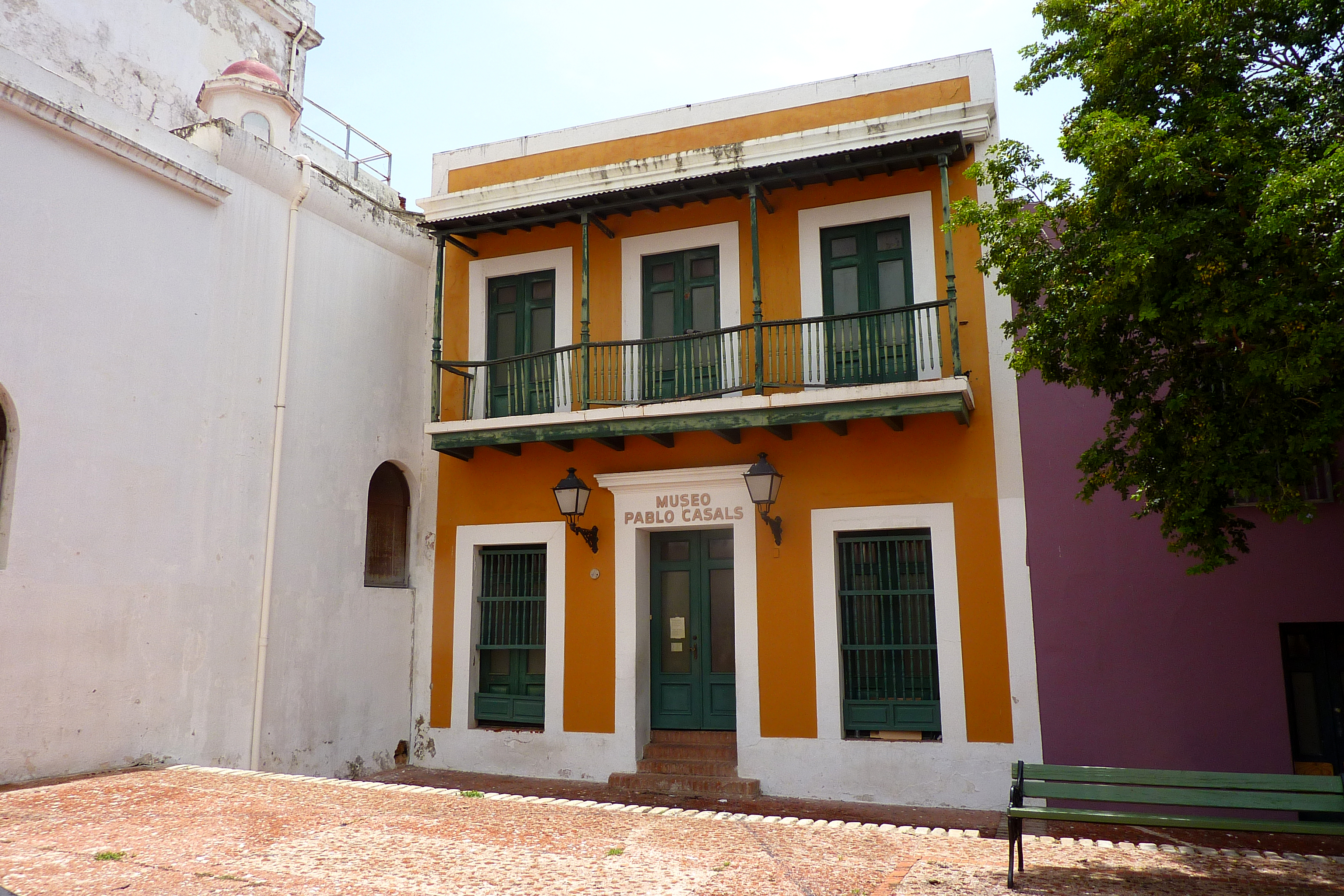 Pablo Casals Museum, Plaza San José, Old San Juan